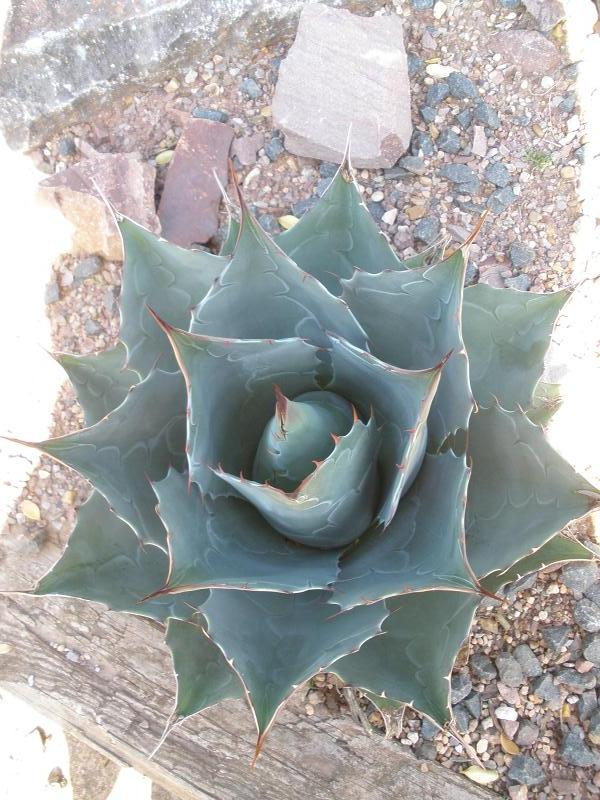 Agave colorata in Kew Gardens, England.